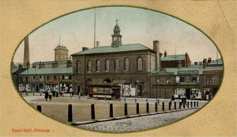 A postcard of Glossop Town Hall, c1910